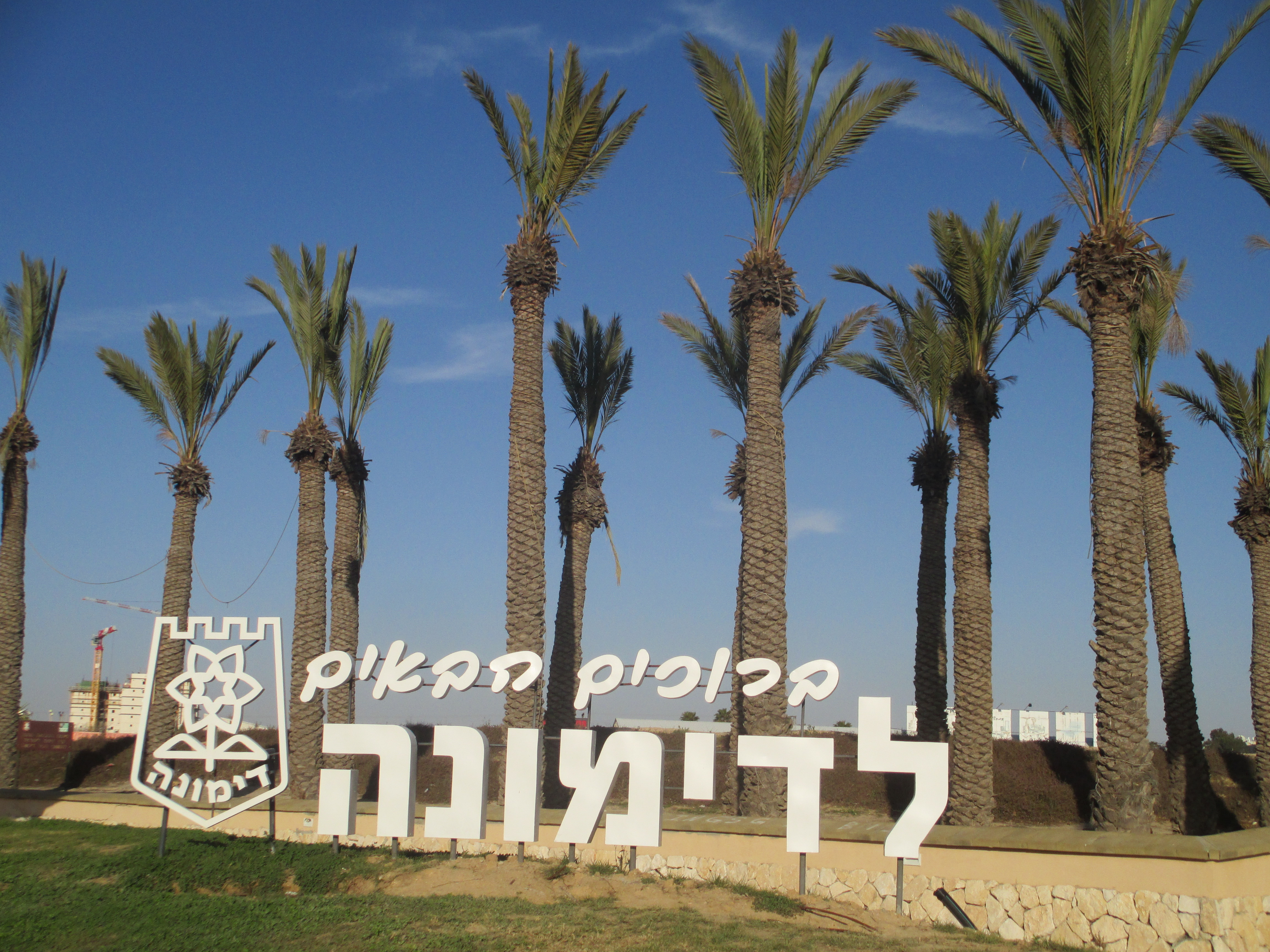 Entrance to Dimona